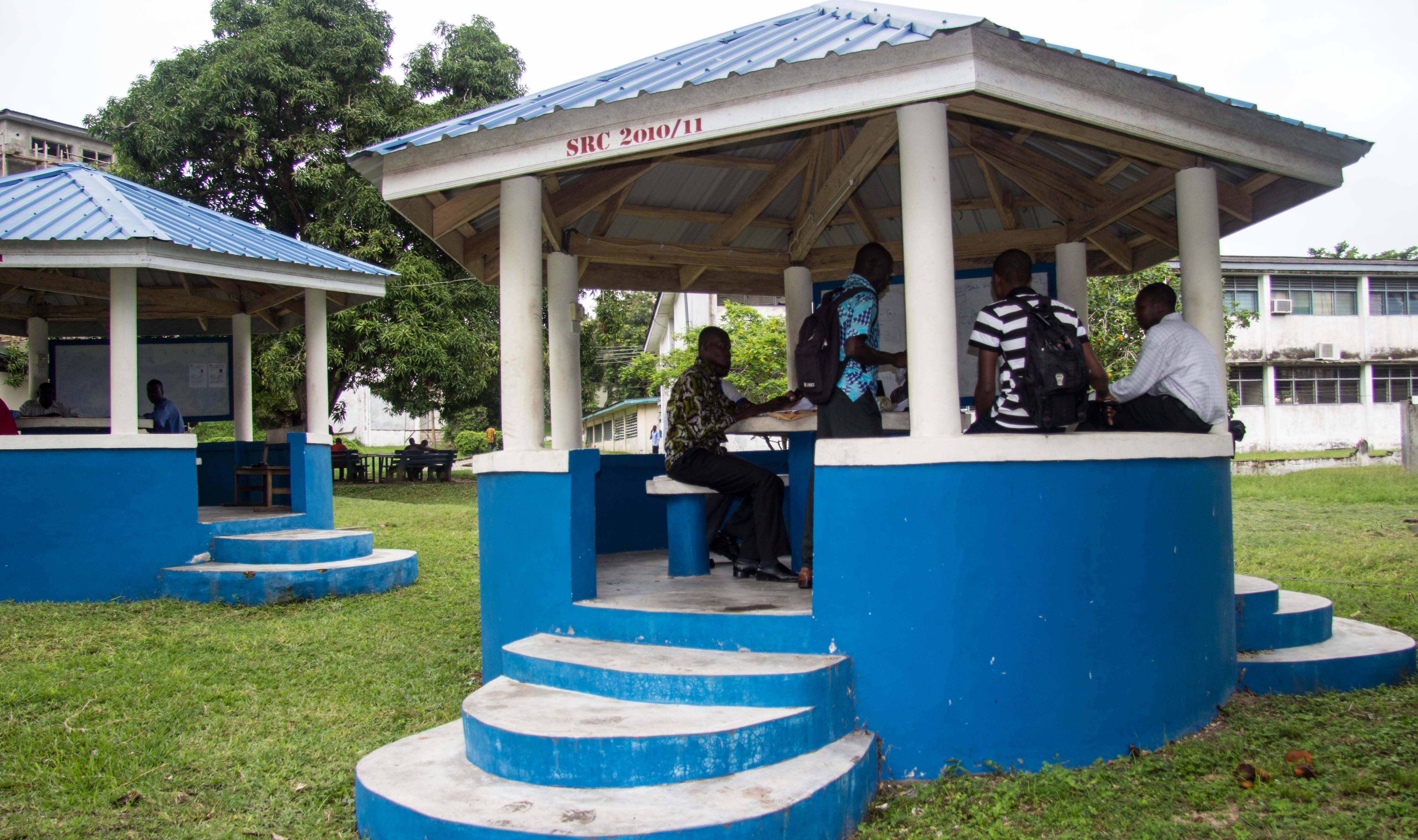 University of Education, Winneba: UEW Study Kiosk, Students at the University of Education, Winneba, South Campus, Ghana.